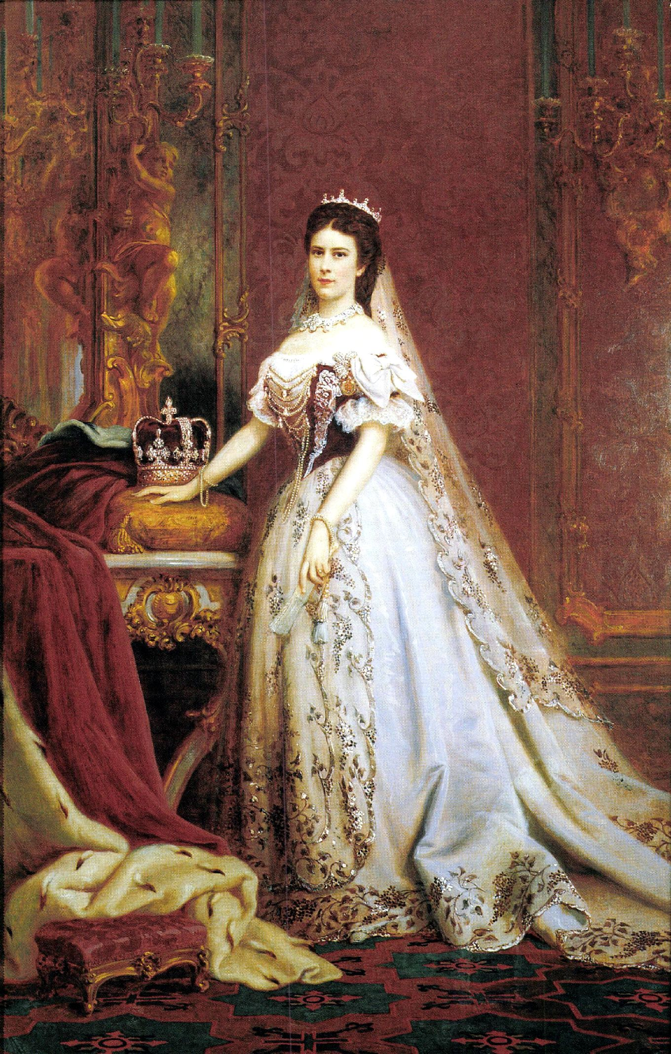 Queen Elisabeth of Hungary and Bohemia, Empress of Austria (1837–1898), née Duchess in Bavaria in Hungarian coronation robes.